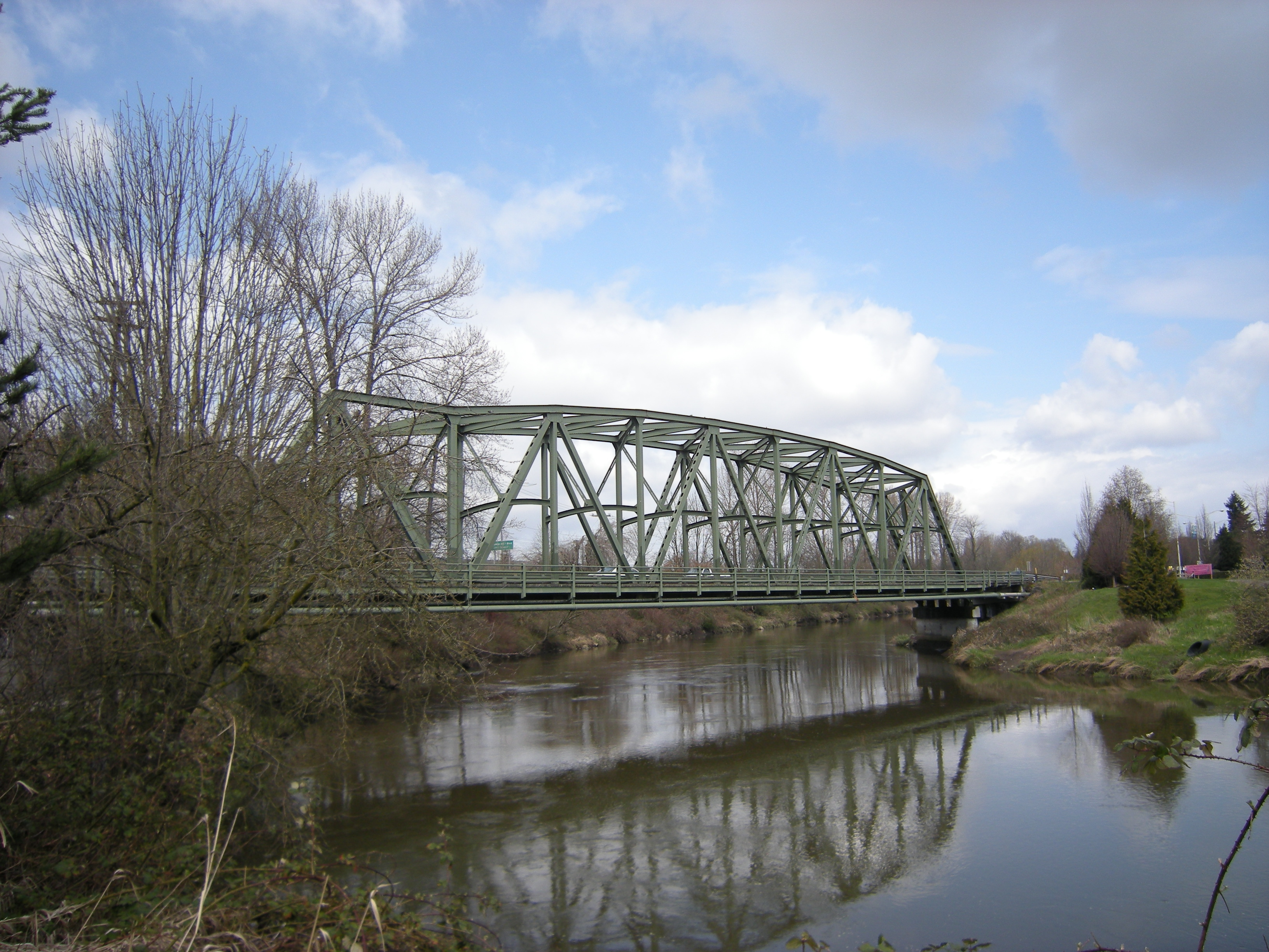 Allentown Bridge, Tukwila, Washington.